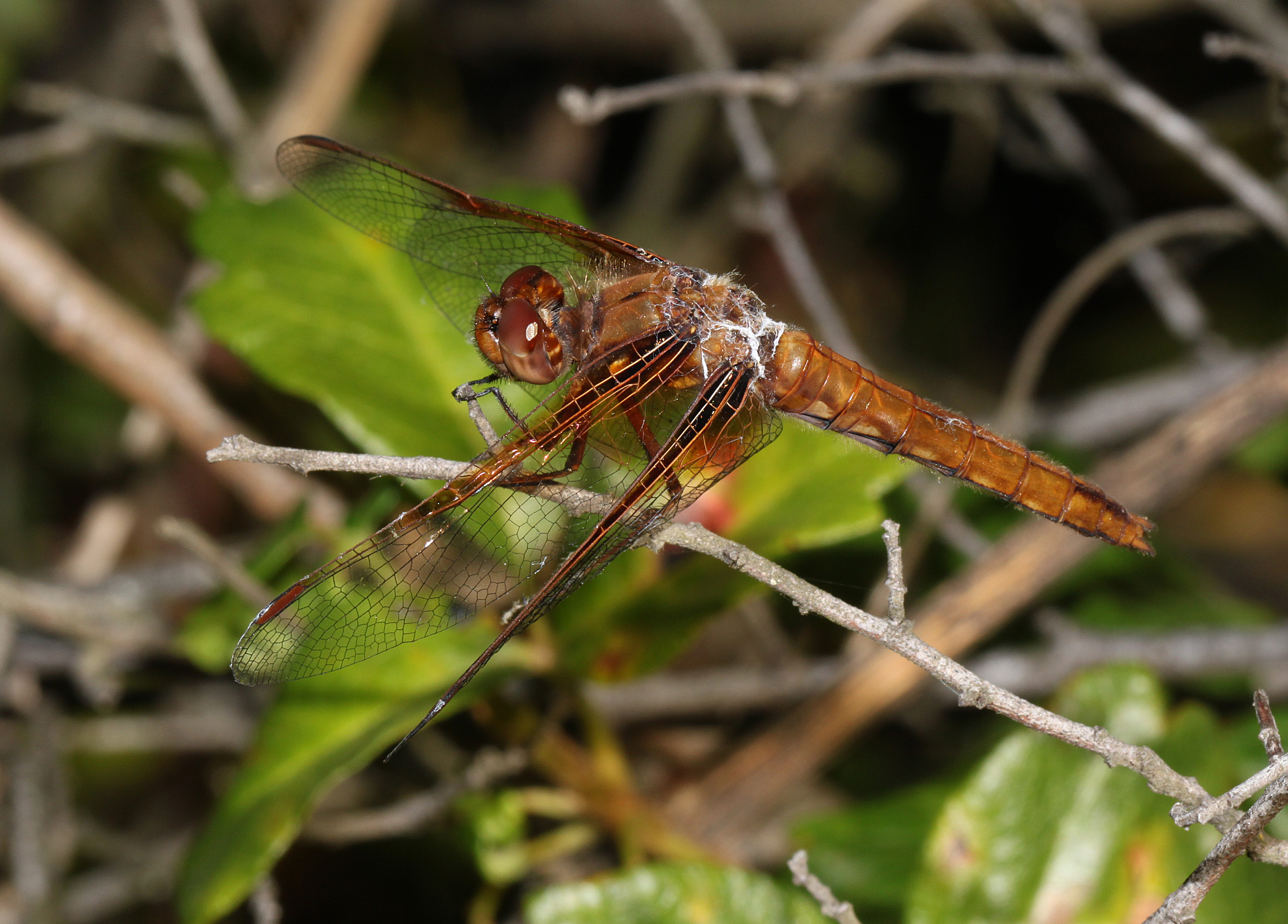 ODONATA